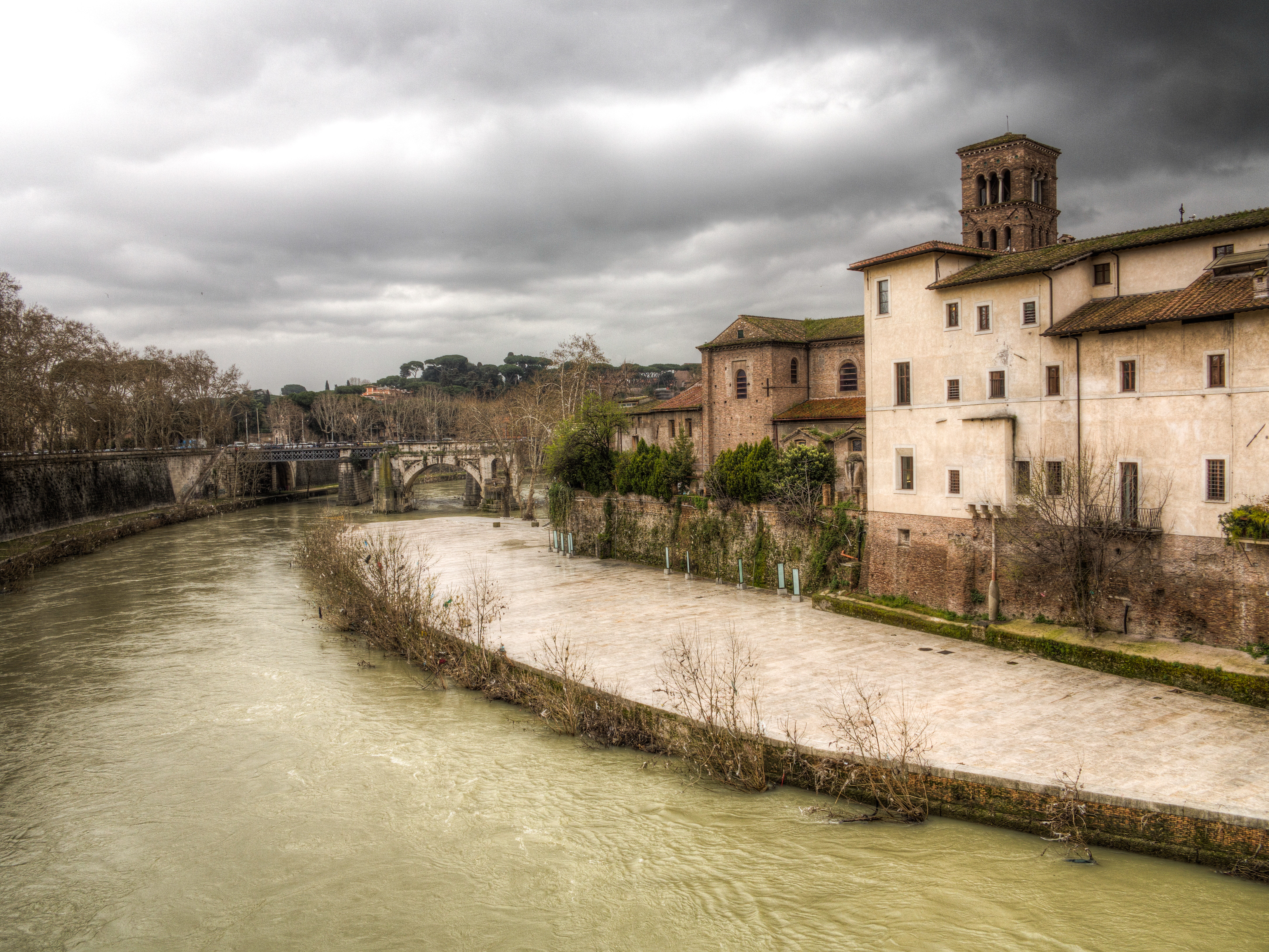 Isola Tiberina in the Tiber near Trastevere in Rione XIII / Trastevere in Rome / Italy / EU. View to the south, in the background downstream the ruined Ponte Emilio and behind Ponte Palatino.